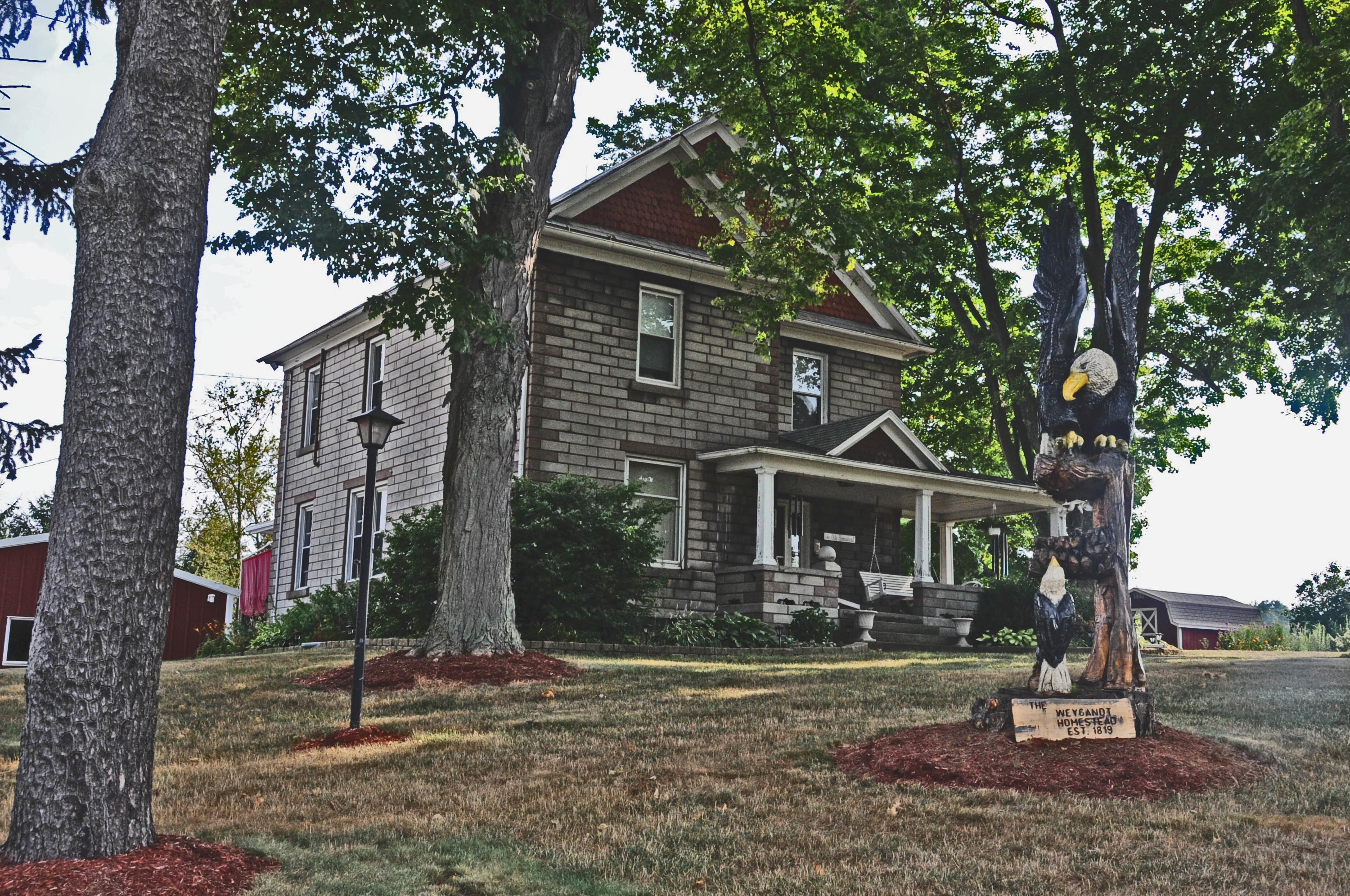 ESTABLISHED IN 1819; VICTORIAN AND QUEEN ANNE